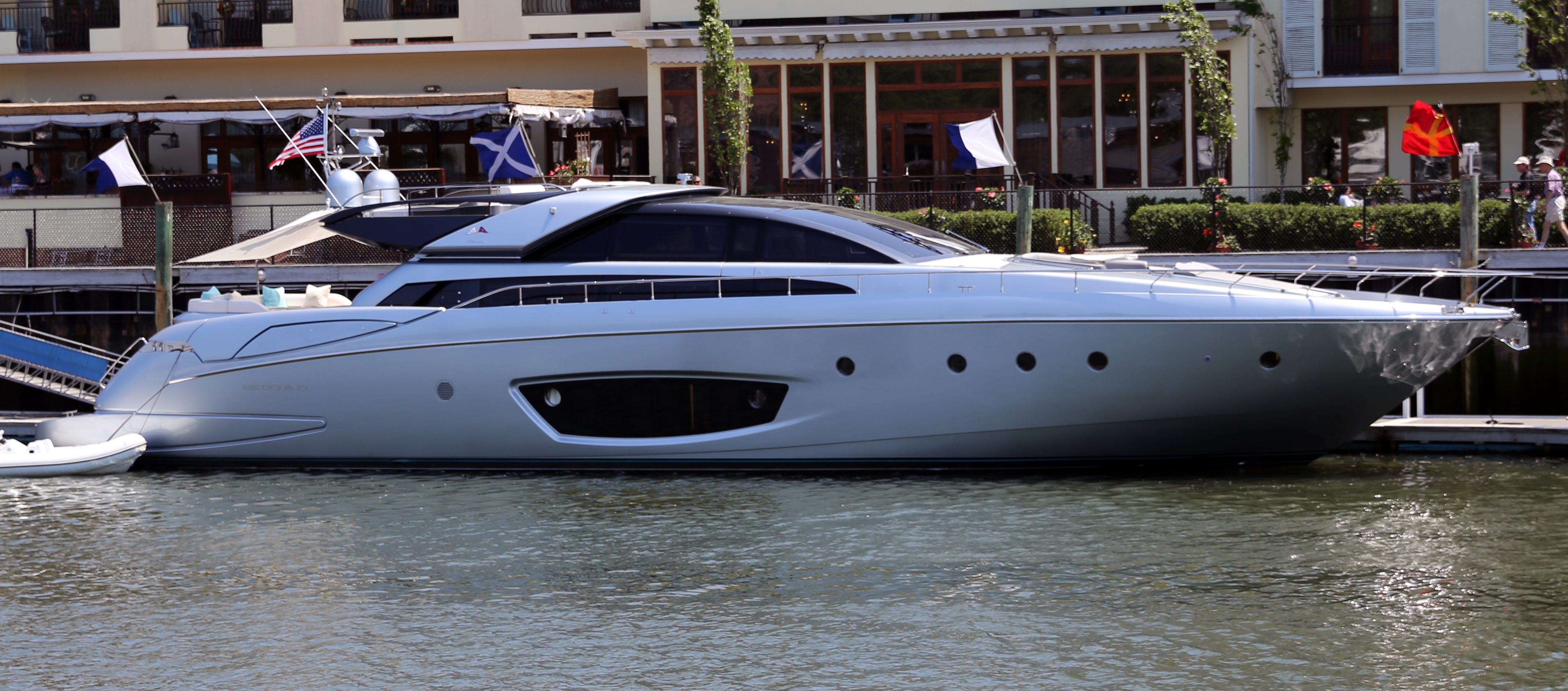 Riva 86ft Domino at the Greenwich Yacht Club.